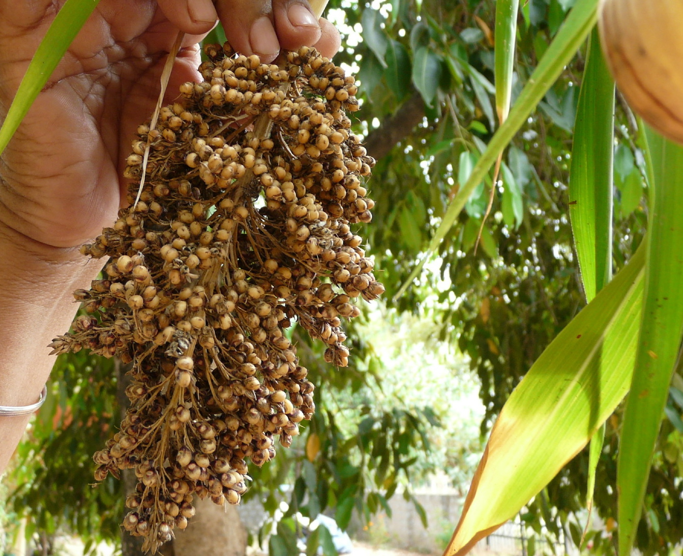 Seed head of Sorghum sp. in India. – Jawar is an important staple food in India, especially for indigenous people in drought-prone areas. Most species are drought tolerant and heat tolerant and are especially important in arid regions. They form an important component of pastures in many tropical regions. Sorghum species are an important food crop in Africa, Central America, and South Asia and is the fifth most important cereal crop grown in the world. (Wikipedia)